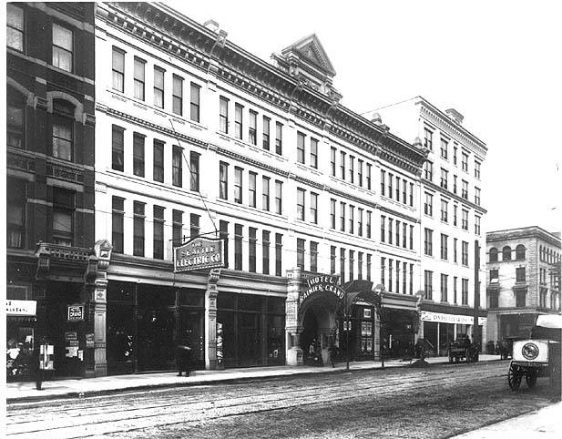 Also shows store of Seattle Electric Co. (907 1st Ave.) Subjects (LCTGM): Hotels--Washington (State)--Seattle Subjects (LCSH): Rainier Grand Hotel (Seattle, Wash.); Seattle Electric Company